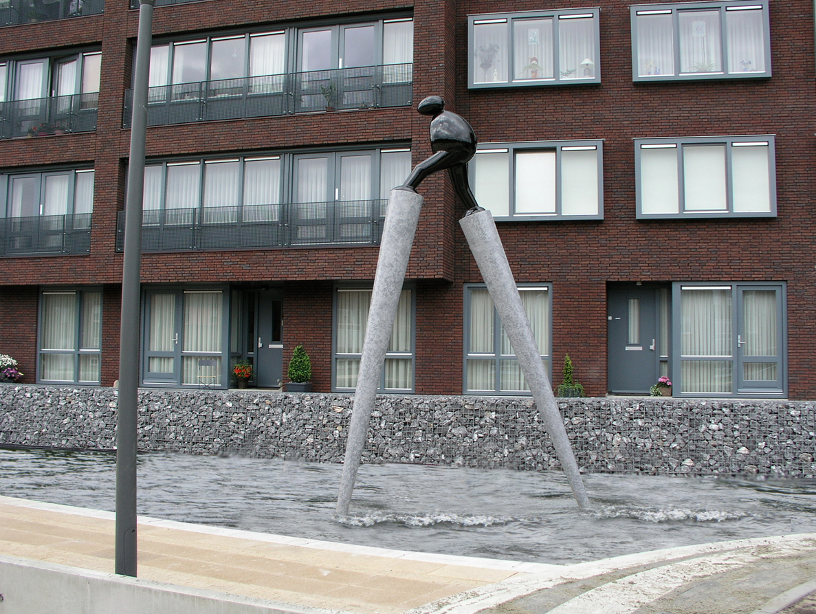 Landgoed Driessen, Alex Vermeulen 2007